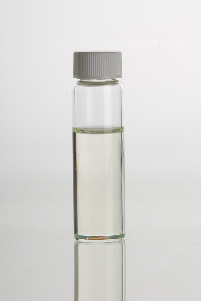 Spruce (Picea mariana) Essential Oil in clear glass vial